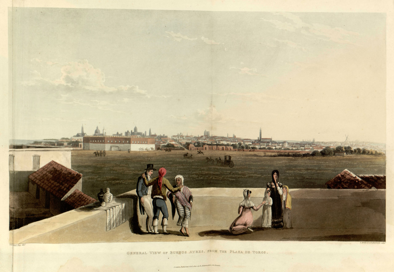 General view of Buenos Ayres from the Plaza de Toros, from "Picturesque illustrations of Buenos Ayres and Monte Video, consisting of twenty-four views: accompanied with descriptions of the scenery, and of the costumes, manners, &c., of the inhabitants of those cities and their environs"